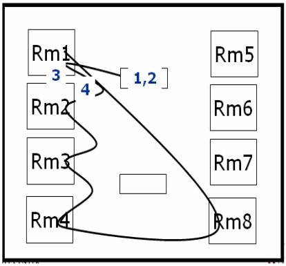 Example of “spaghetti diagram” used during workflow analysis for Glycemic Control Project. This diagram depicts the movement of the nurse while searching for a glucometer.